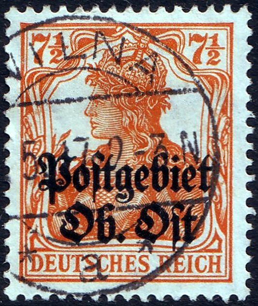 Stamp of the Postgebiet des Oberbefehlshabers Ost, meant for that part of Russia that was occupied by Germany during WW I, 1916. Mi. 4 with cancellation Wilna (Vilnius)